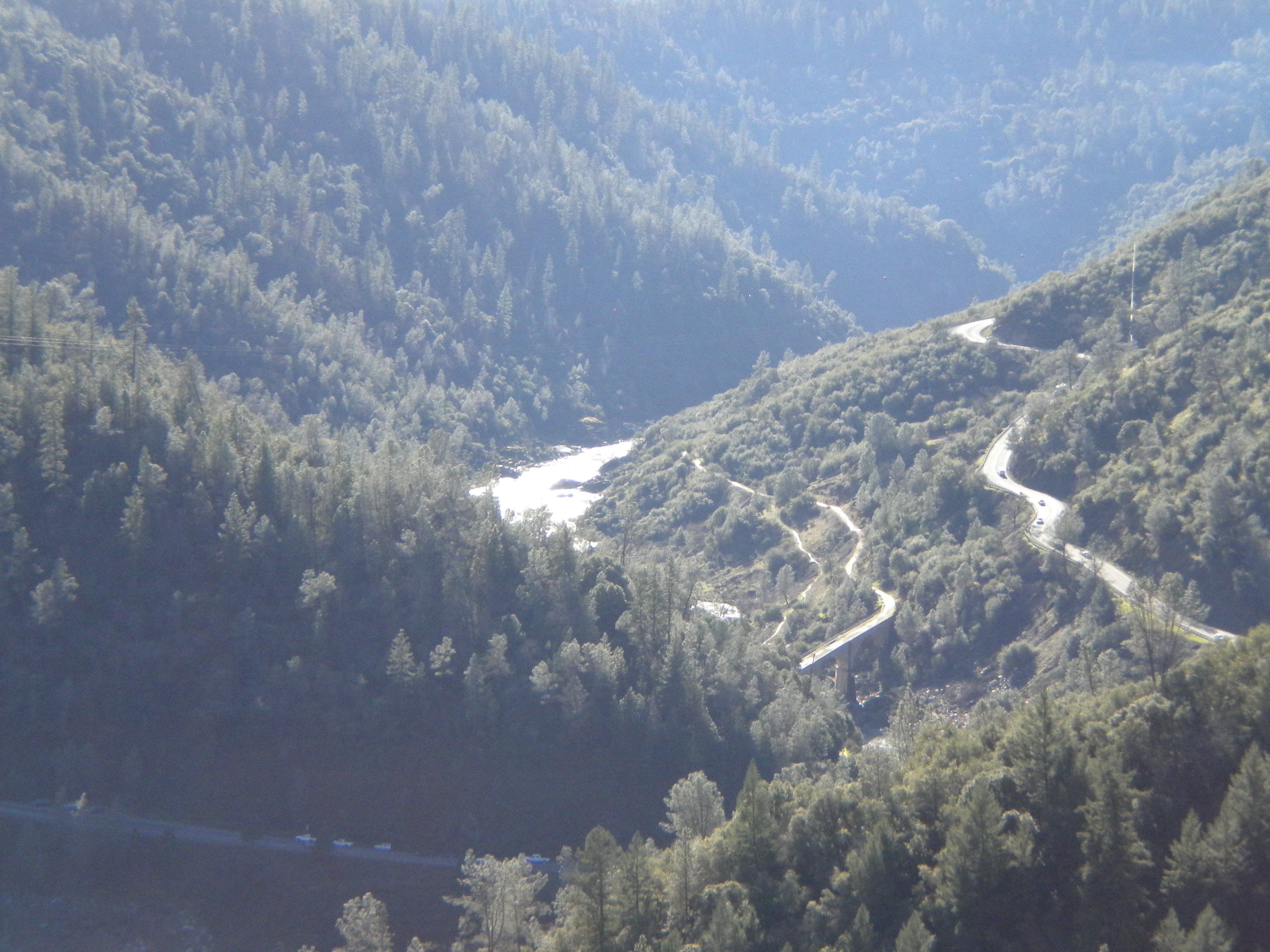 California State Routes 49 and 193, crossing the North/Middle Fork of the American River, looking south-southwest from the eastern terminus of the Foresthill Bridge. Auburn is forward and to the right, Cool a few miles to the left. The actual highway bridges and the confluence of the North and Middle Forks are unseen behind the ridge in front (the bridge near the middle of the picture is the Mountain Quarries Bridge, a former railroad bridge and a historical landmark).